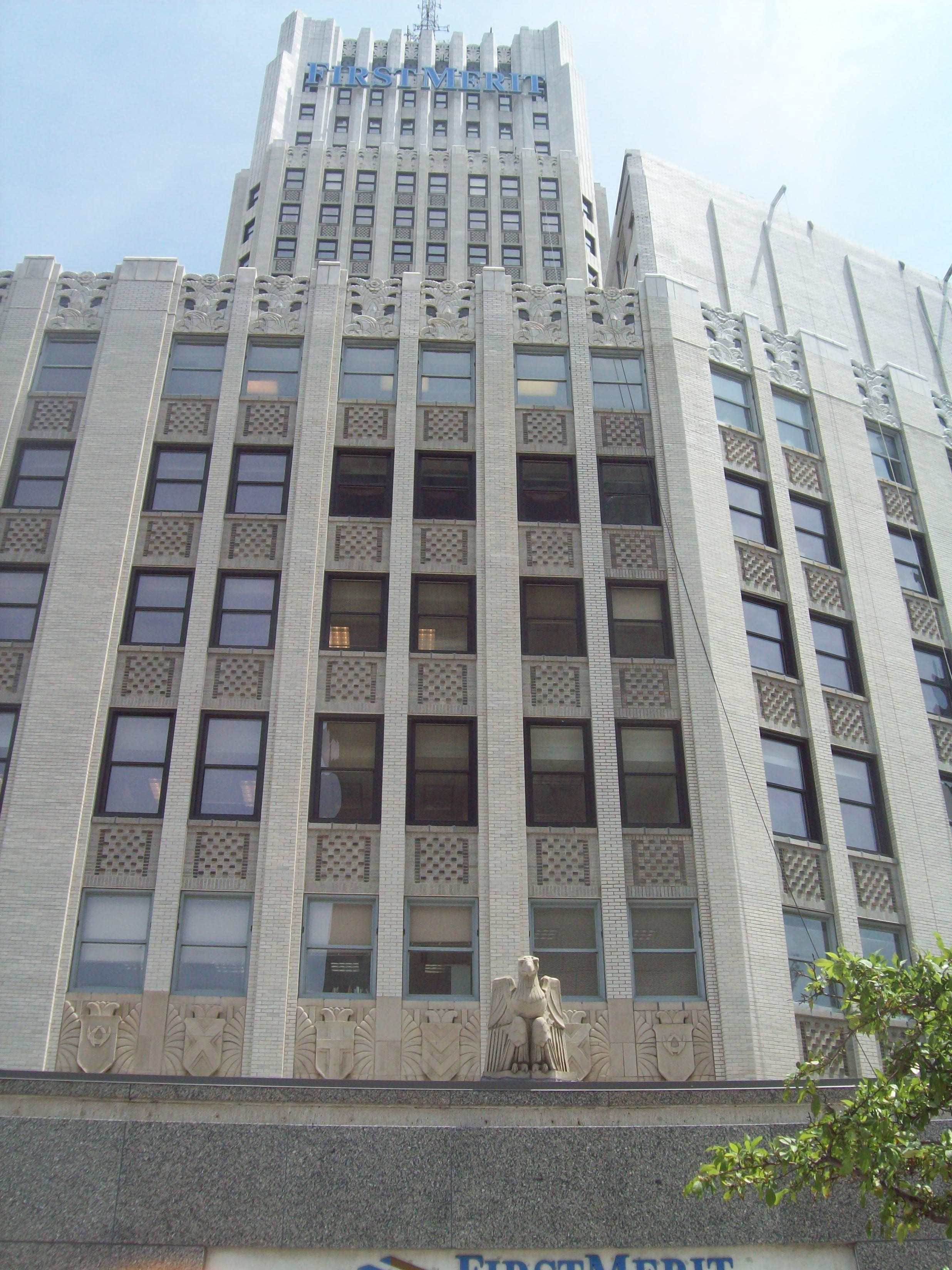 First National Tower